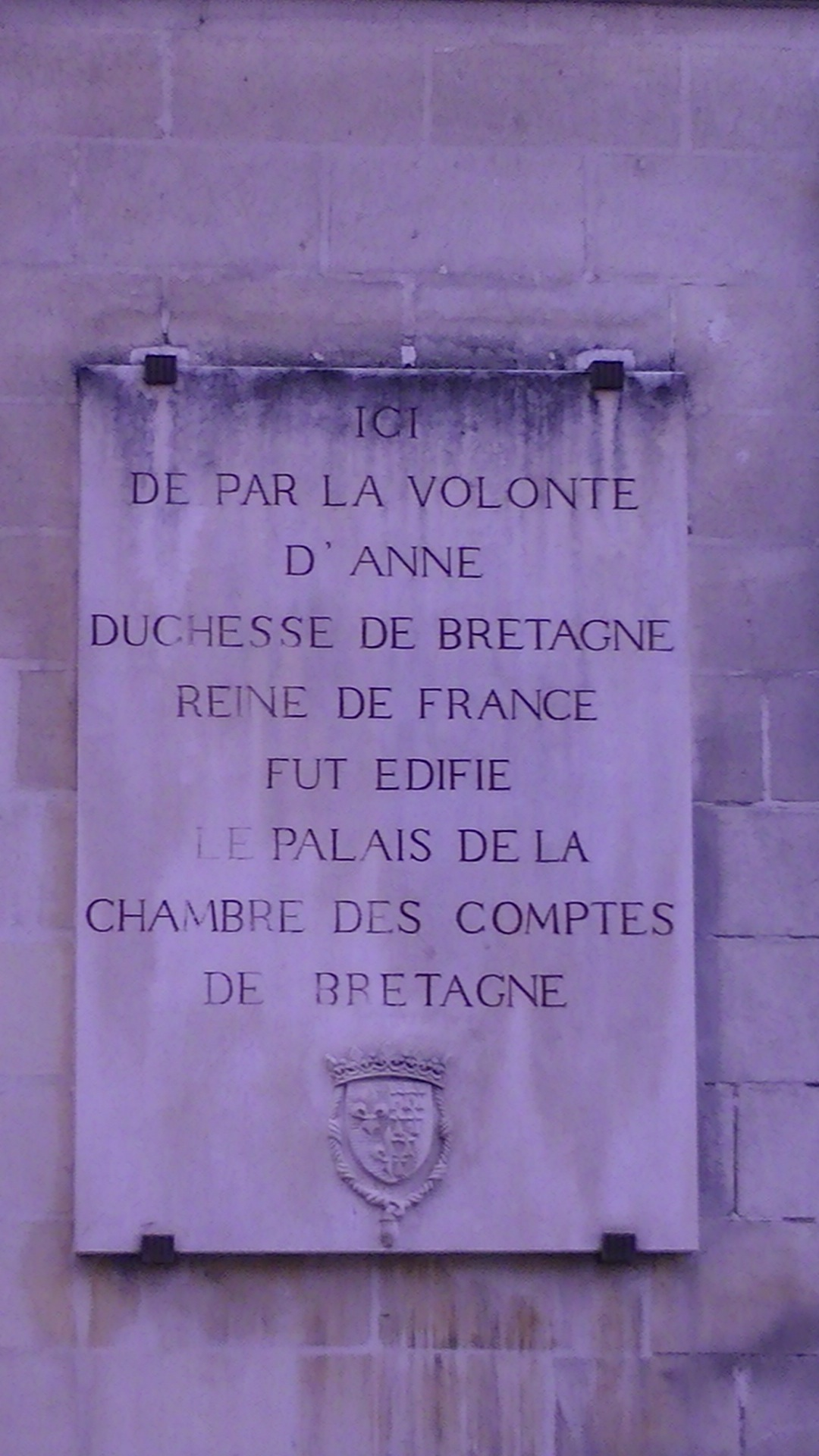 Plaque commemorating the former site of the Chambre des comptes de Bretagne, at the Préfecture de la Loire-Atlantique, Nantes